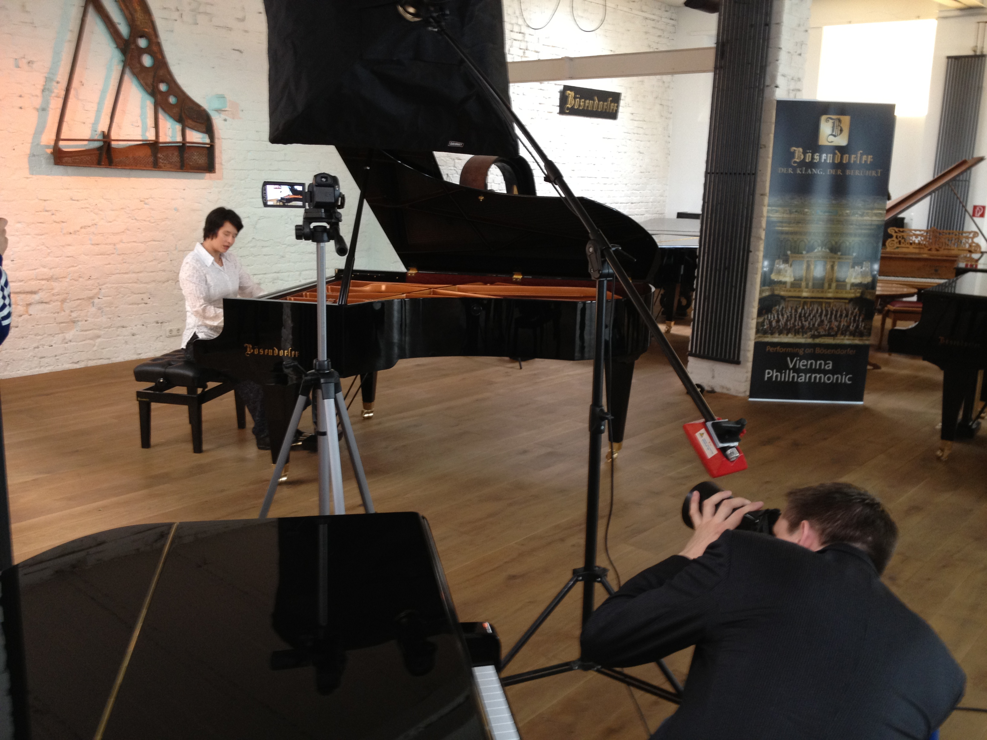 Kimiko Douglass-Ishizaka photo shoot At Klaviere Then in Köln